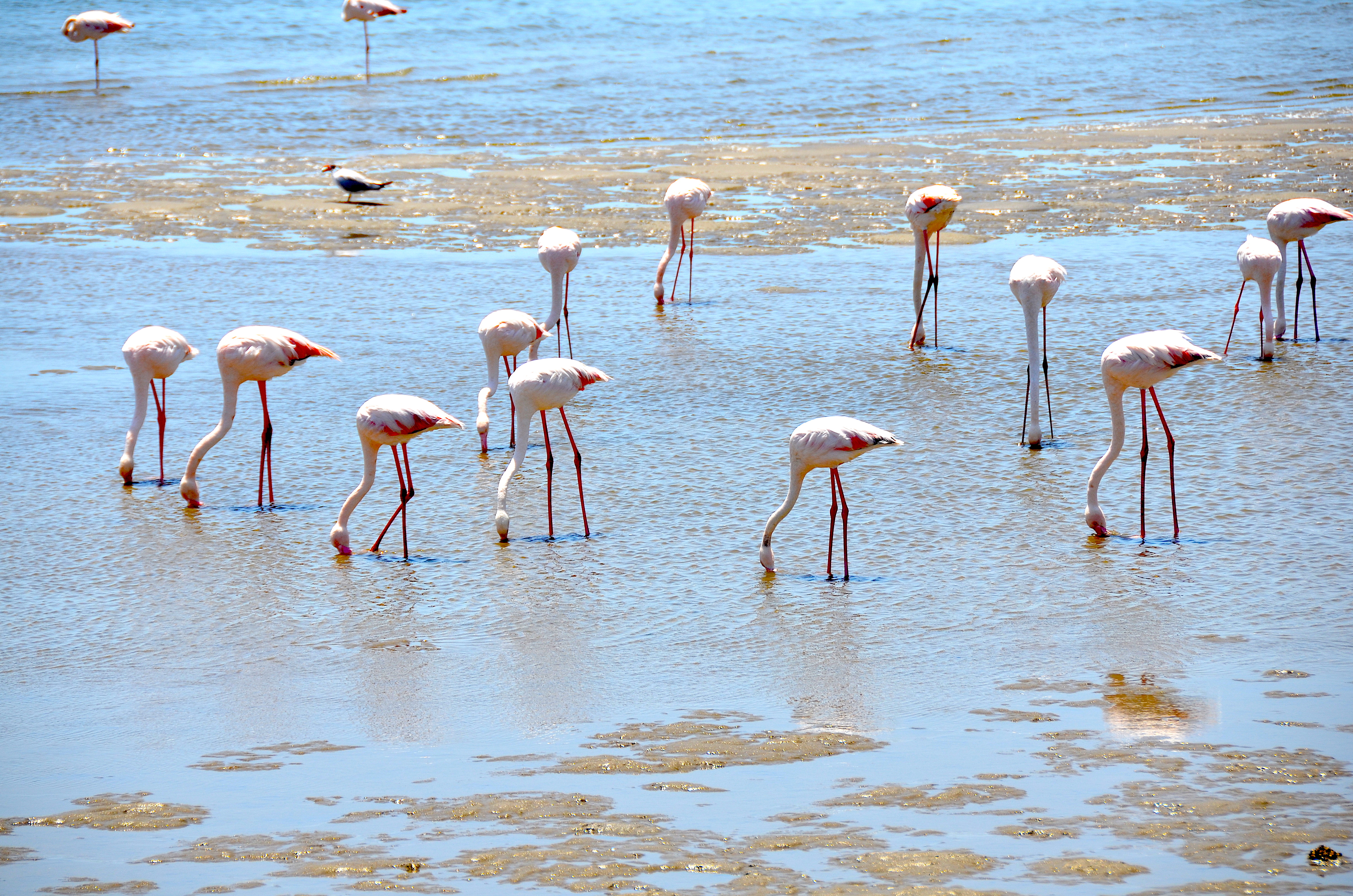 Greater flamingo feeding at Walvis Bay (Namibia)